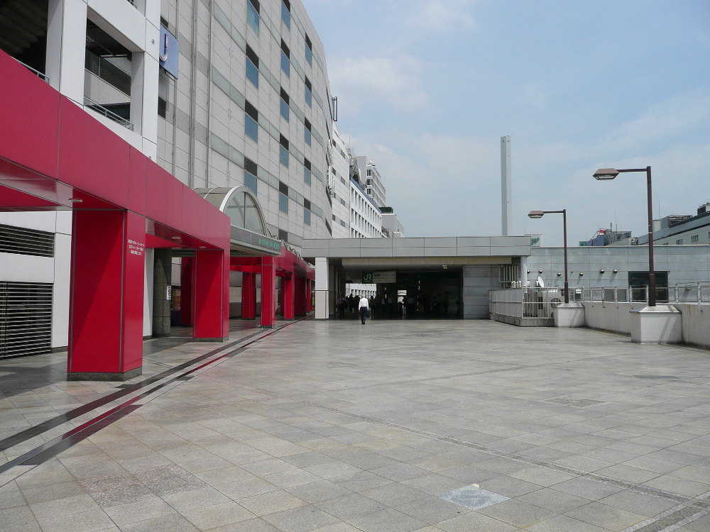 Ikebukuro Station Metropolitan Exit